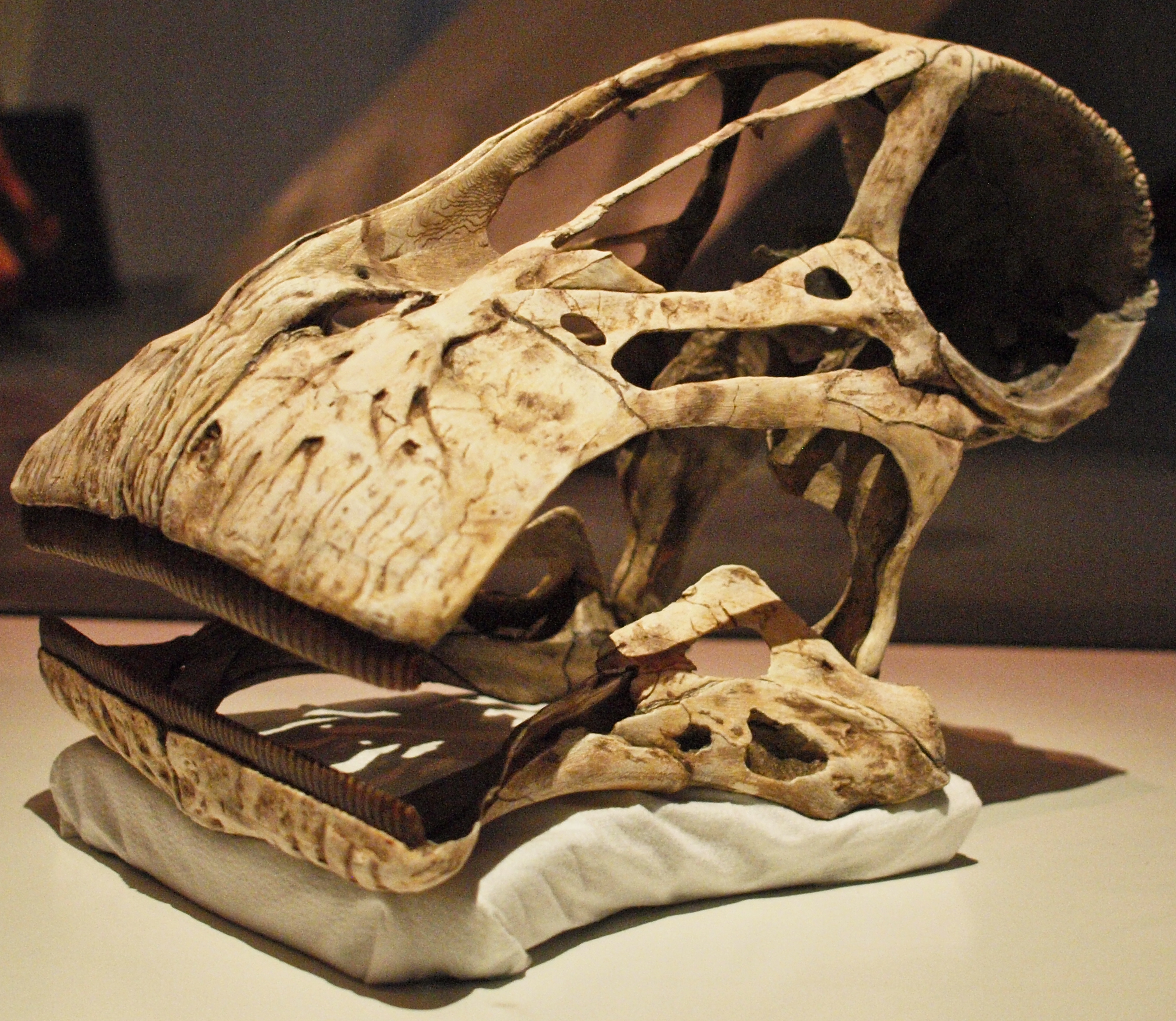 Cast Skull of a Nigersaurus taqueti on Display at the Royal Ontario Museum (Cast of MNN GAD512)